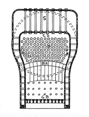 Belpaire firebox of a locomotive boiler